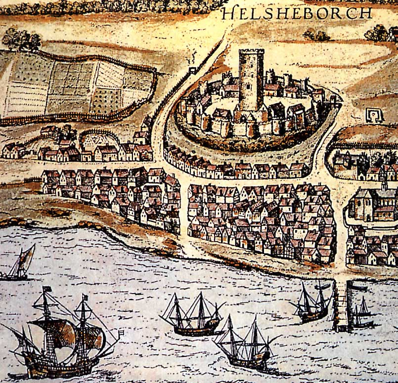 Picture of the medieval castle of Helsingborg in Skania, Denmark (now Sweden) from 1588.